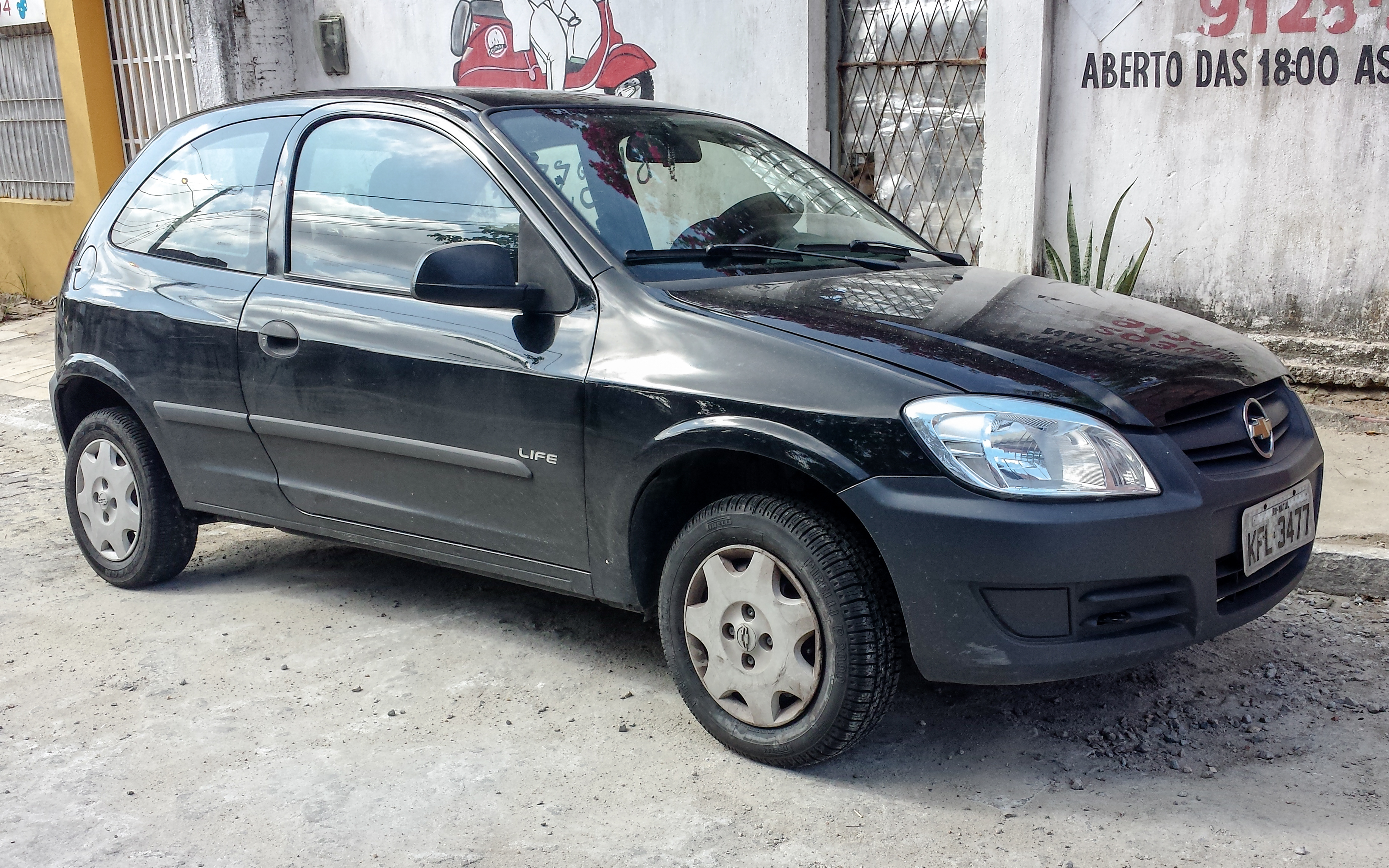 Chevrolet Celta Life three door hatchback